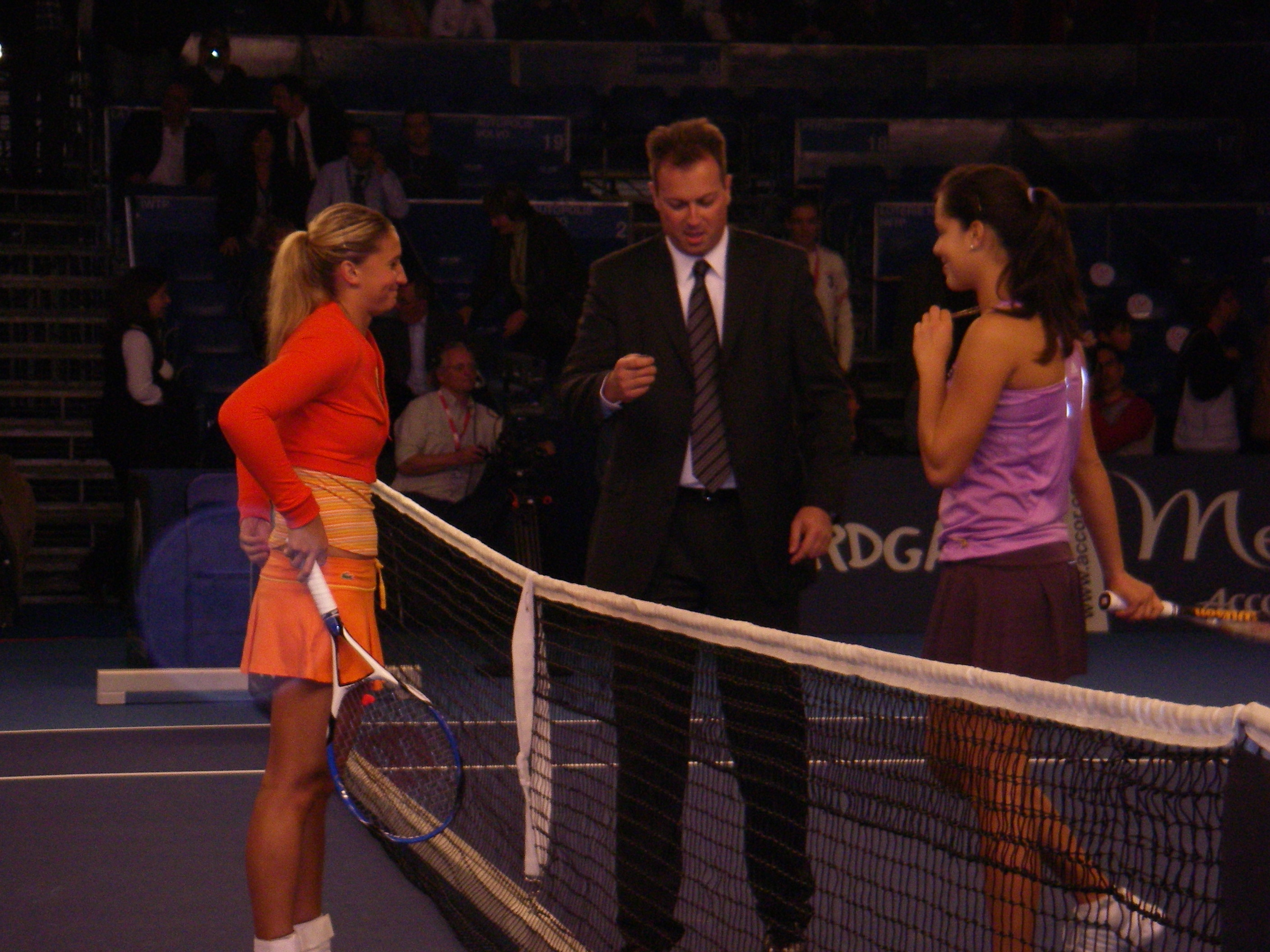 Tatiana Golovin and Ana Ivanovic.